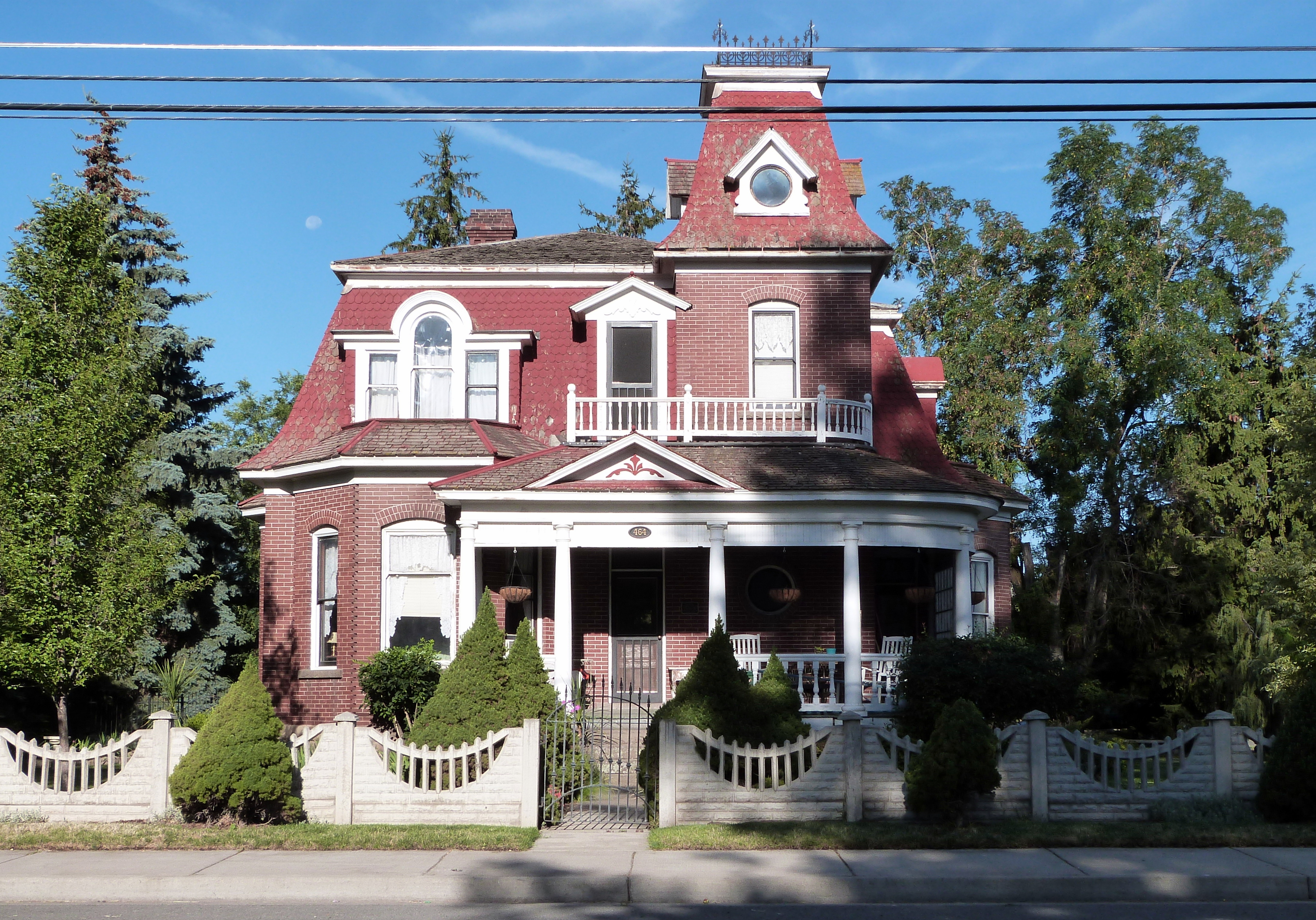 The historic Abel E. Eaton House (built 1904), located at 464 North Main Street in Union, Oregon, United States, is listed on the US National Register of Historic Places. It is also identified as a primary contributing resource in the Union Main Street Historic District.